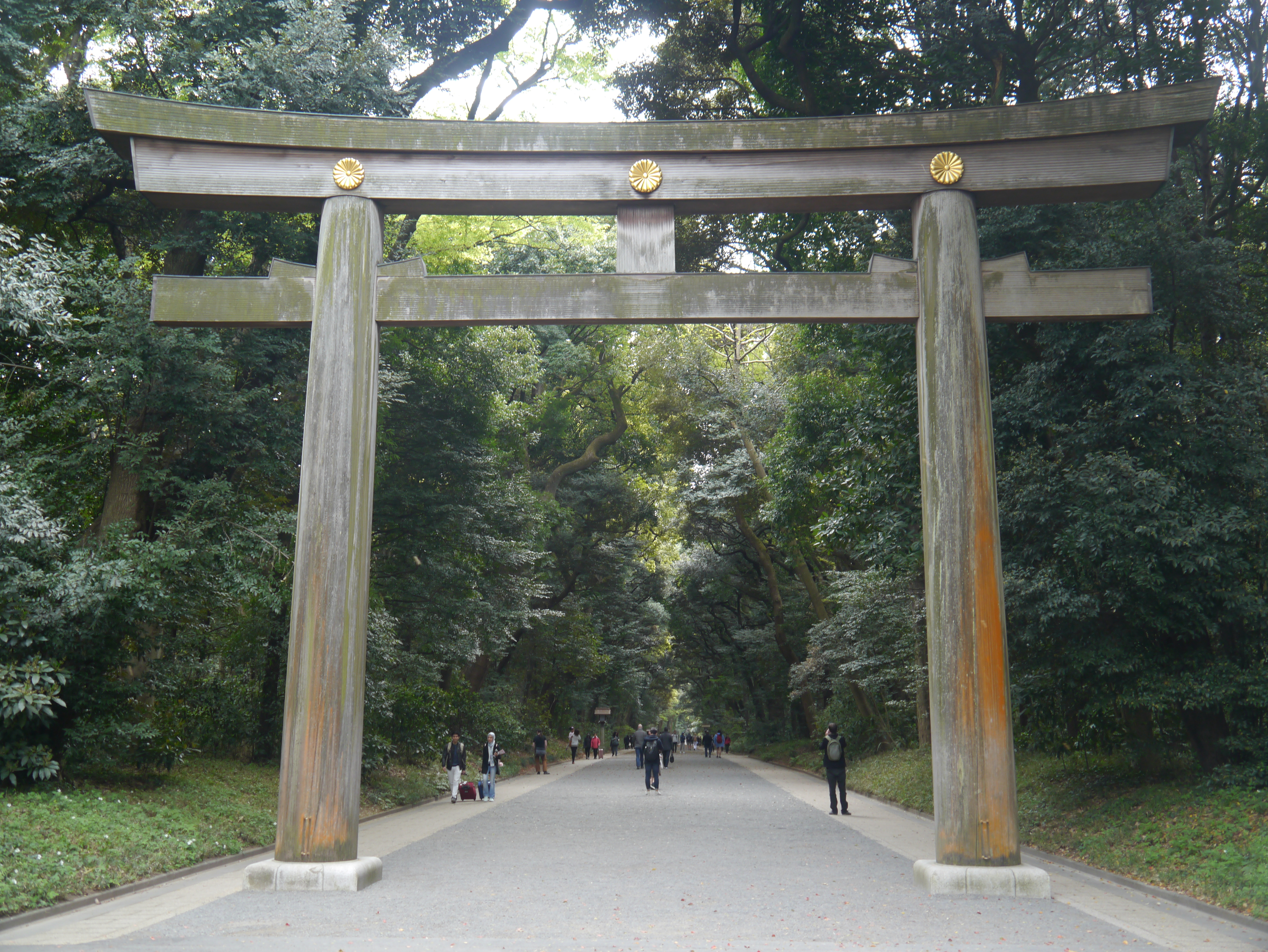 Torii of the Meiji Shrine, Tokyo/Tokyo Prefecture, Japan